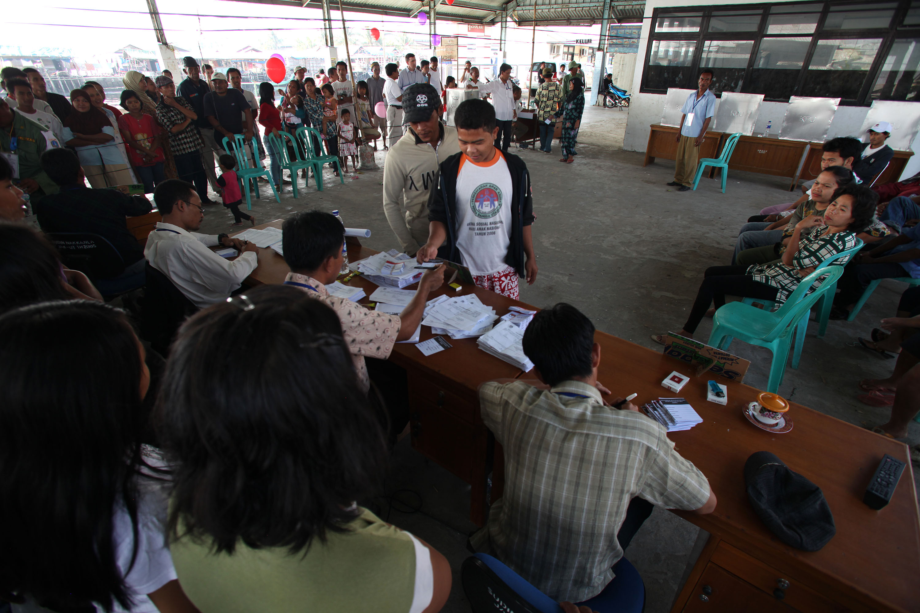 Australia has supported Indonesia to deliver quality elections at all levels of government, including the 2009 presidential election held on July 8, 2009.